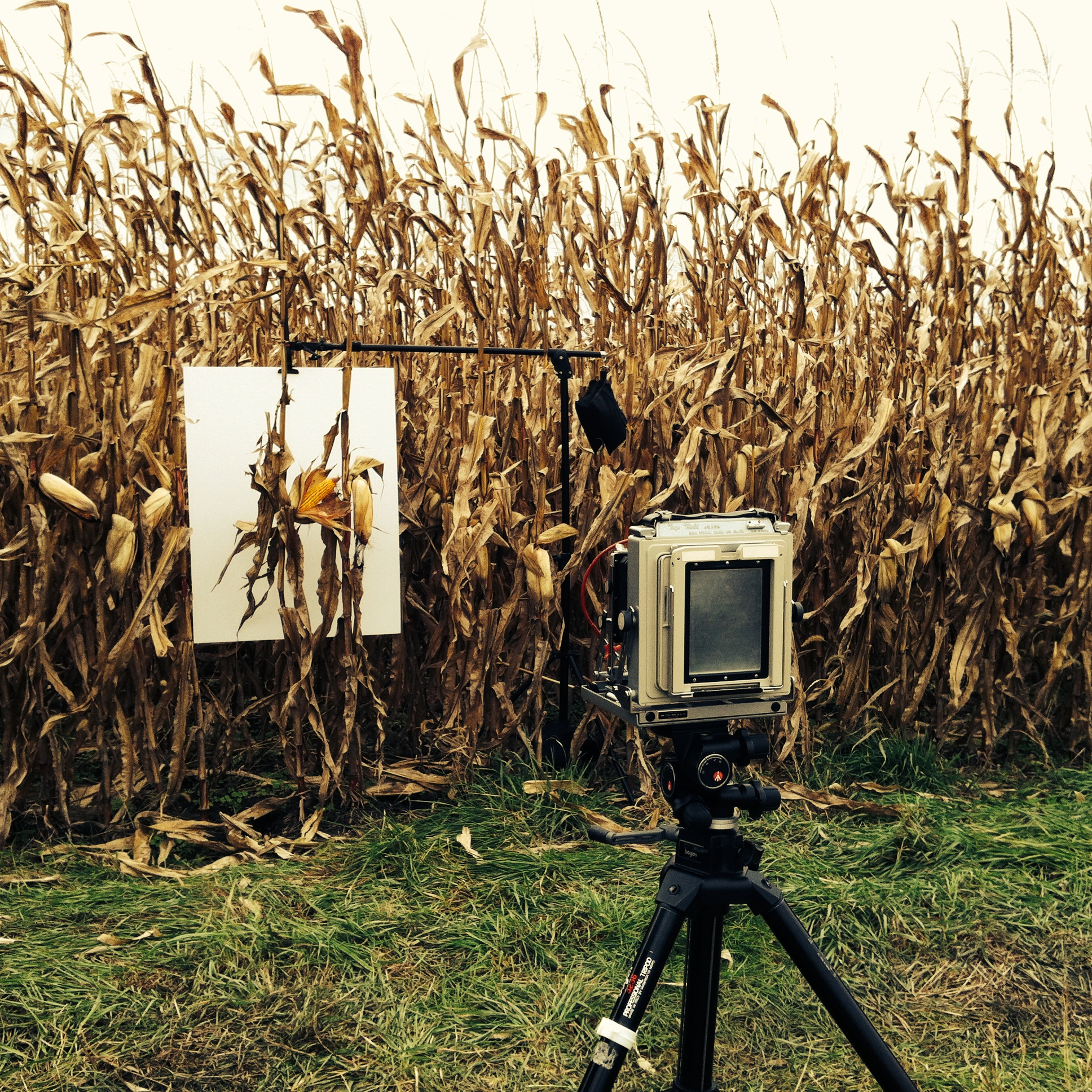 Making of Monsanto: A Photographic Investigation (Mathieu Asselin)